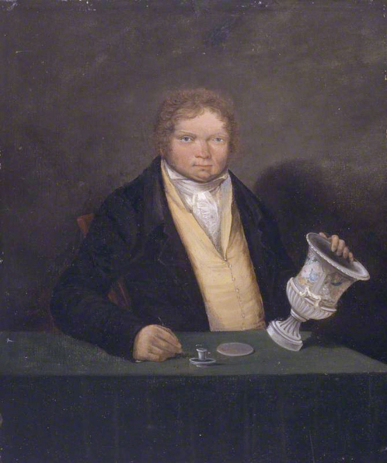 Self portrait oil on panel 38.1 x 32.5 cm c. 1810–1820